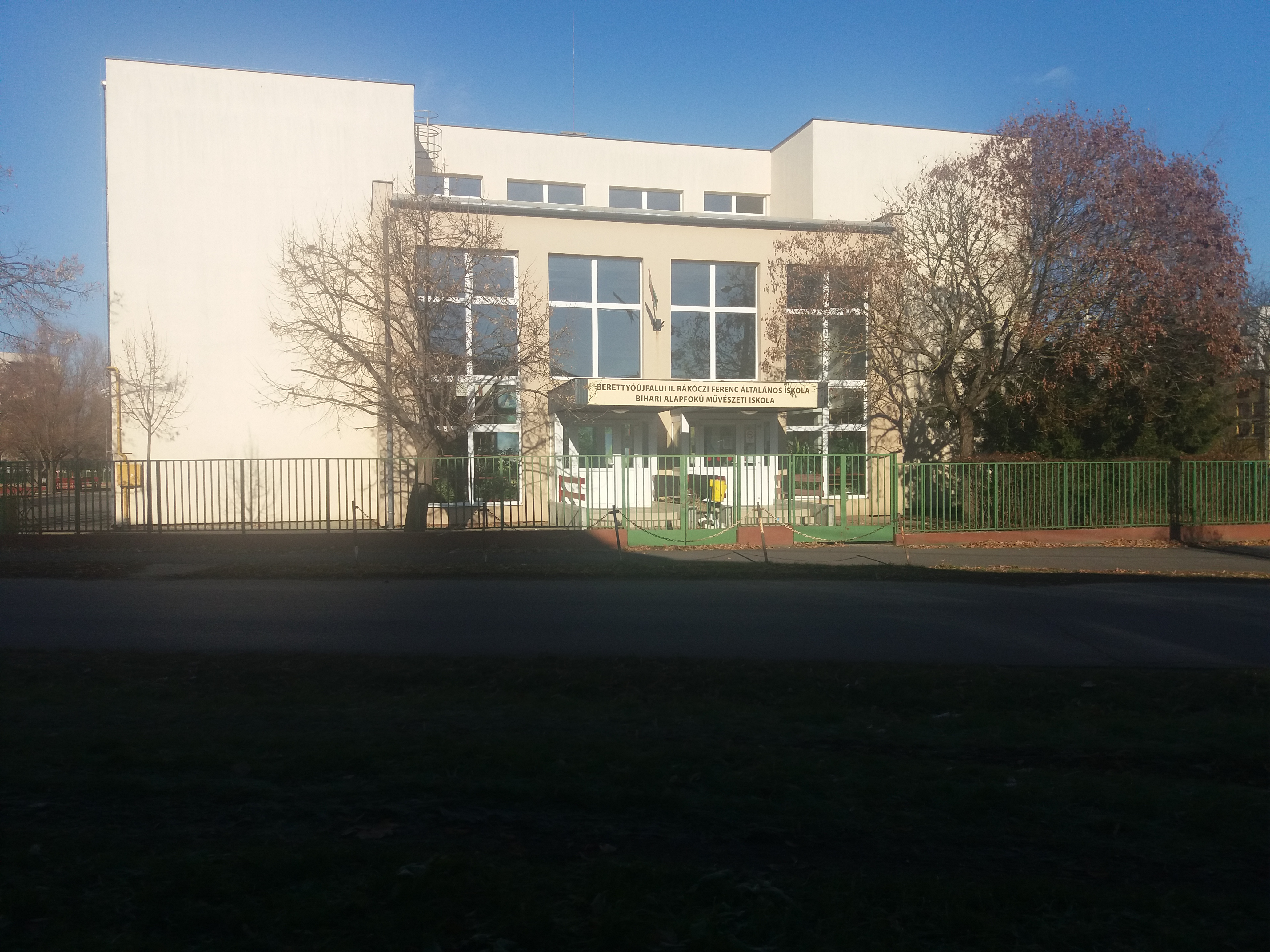 II. Rákóczi Ferenc Elementary School in Berettyóújfalu, Hungary.